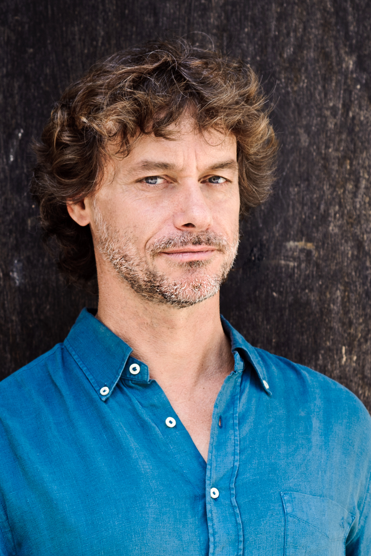 Alberto Angela, Italian paleontologist and scientific popularizer.